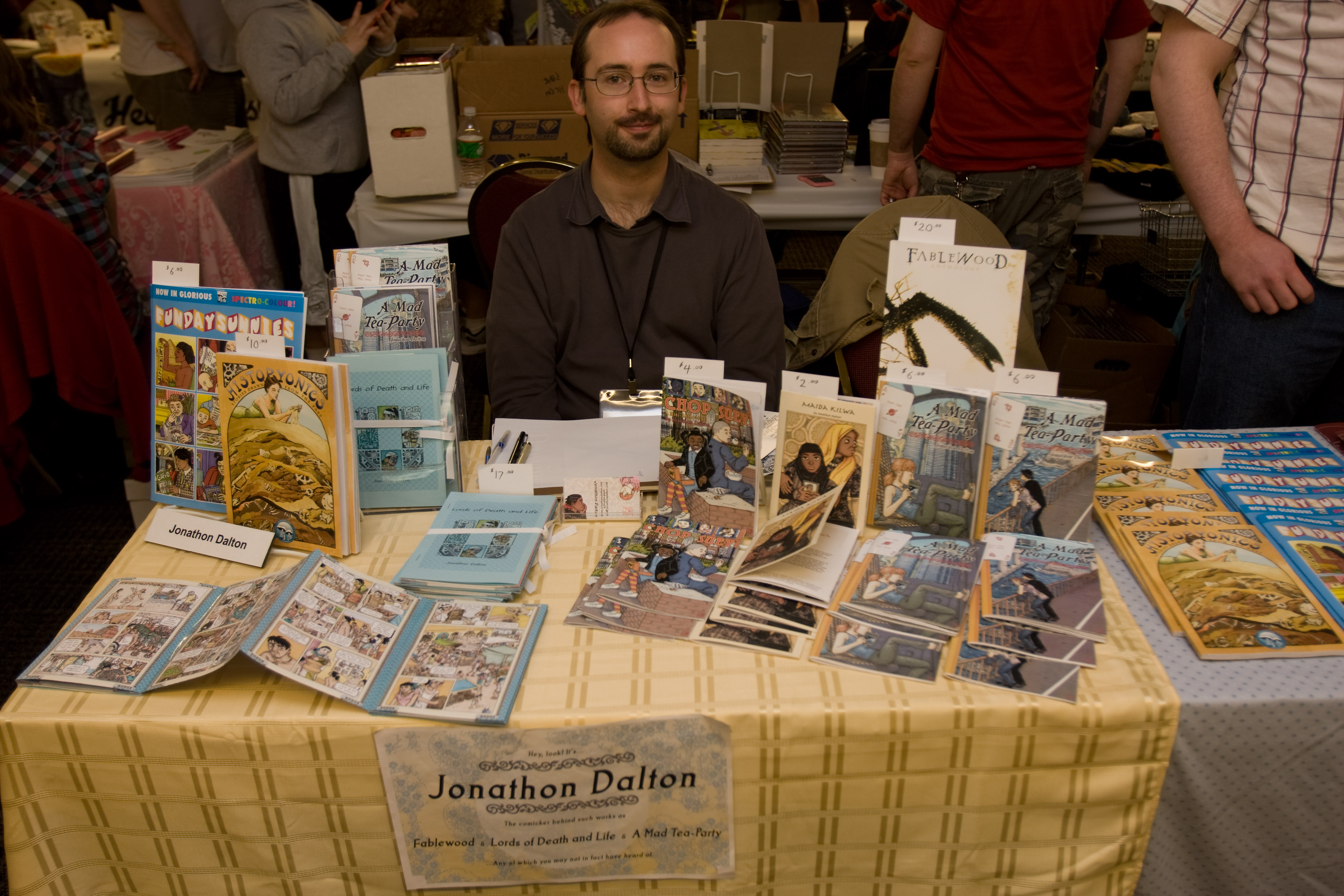 Jonathon Dalton sitting at his exhibition table during Stumptown Comics Fest 2009